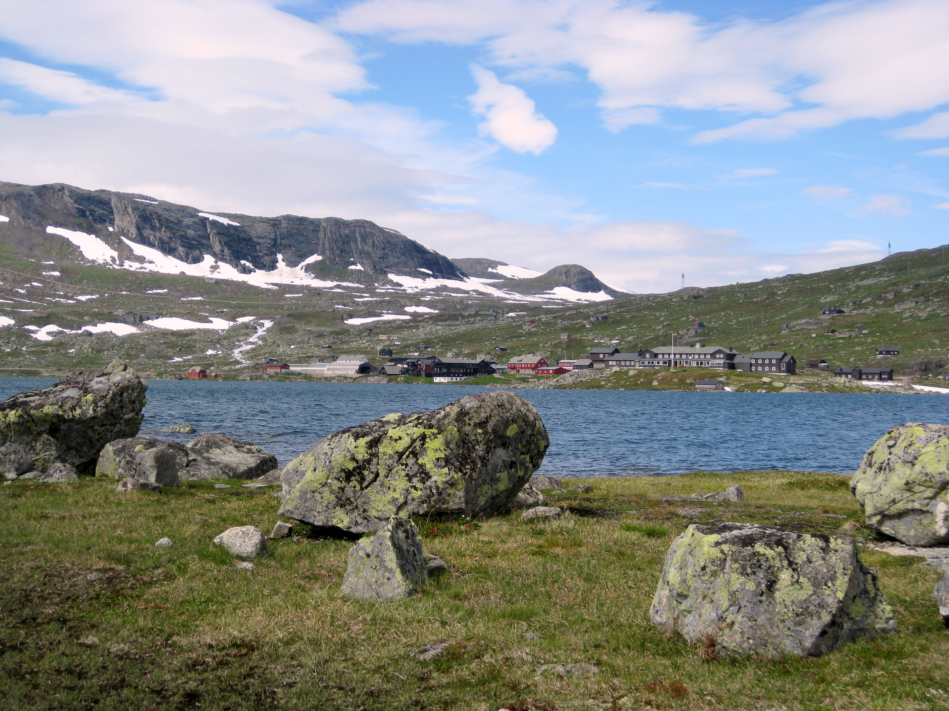 Finse